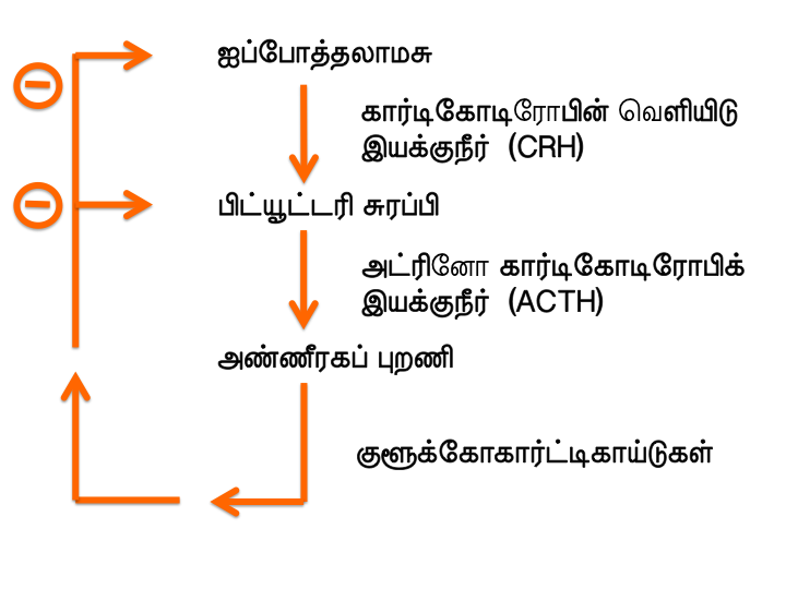 ACTH Negative Feedback